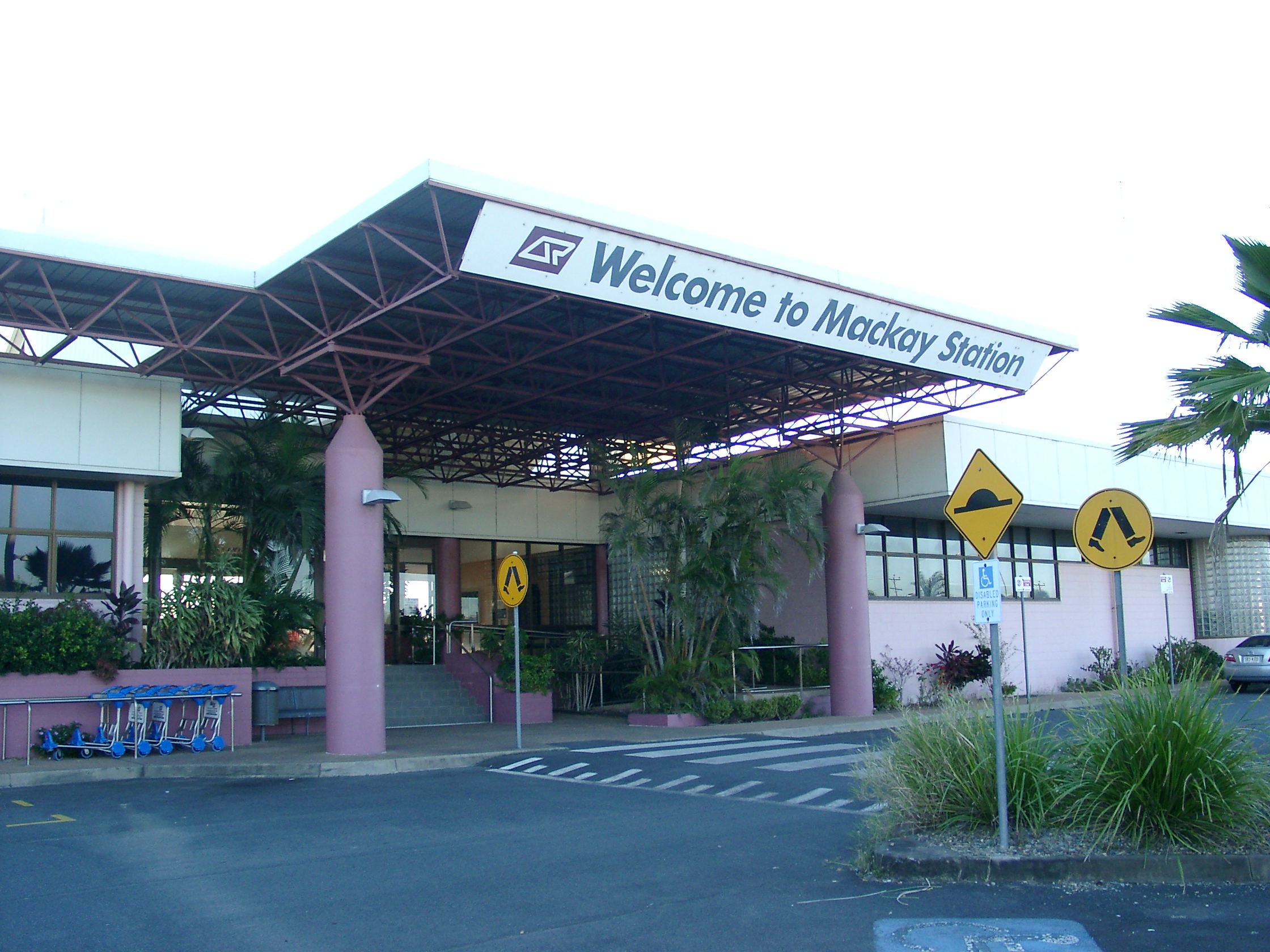 Mackay QLD, Station